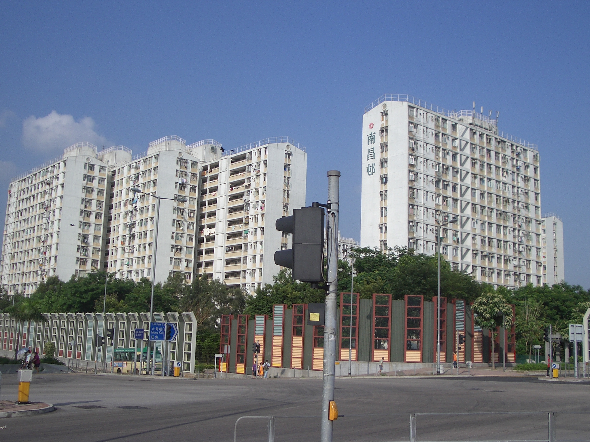 Cheong Shun House and Cheong Yat House, Nam Cheong Estate, Sham Shui Po, Kowloon, Hong Kong